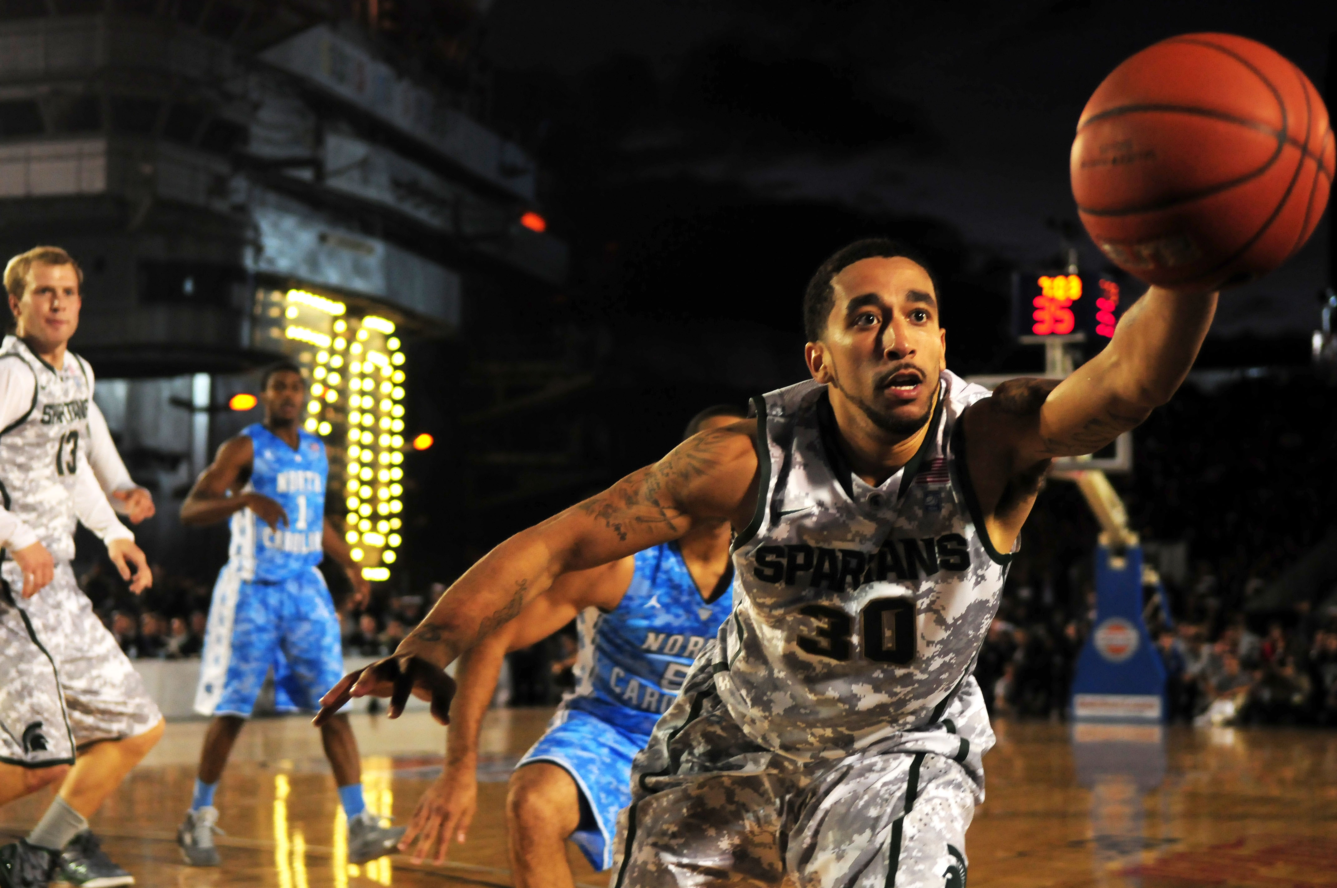 SAN DIEGO (Nov. 11, 2011) Michigan State University guard Brandon Wood (#30), dives after the ball against the University of North Carolina on the flight deck of the Nimitz-class aircraft carrier USS Carl Vinson (CVN 70). Carl Vinson hosted the Michigan State Spartans and the University of North Carolina Tar Heels for the inaugural Quicken Loans Carrier Classic basketball game. (U.S. Navy photo by Mass Communication Specialist 2nd Class Dylan McCord/Released)